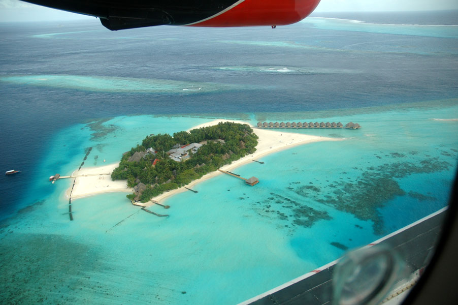 The Maldivian island and resort of Moofushi taken by a seaplane.